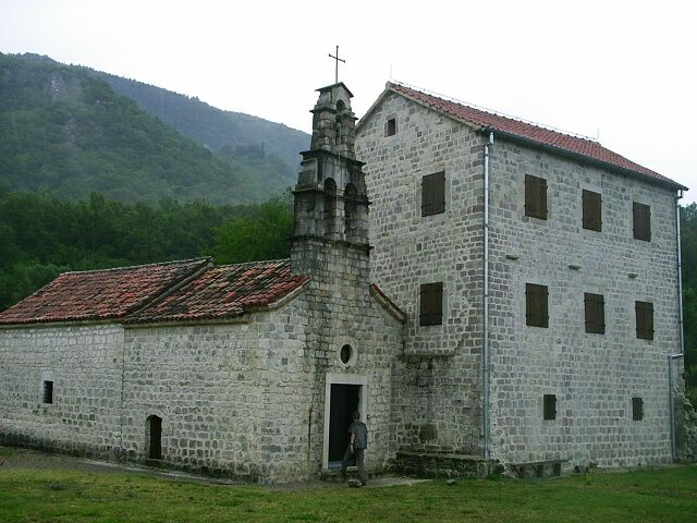 Podostrog church from 15th century, Montenegro